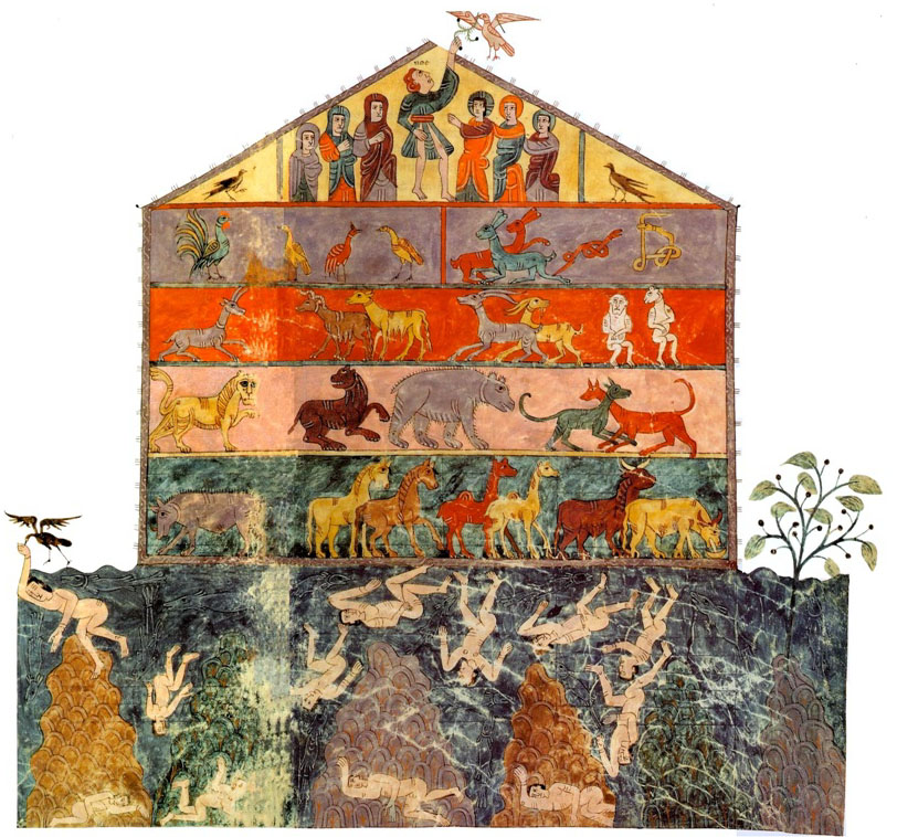 Girona Beatus